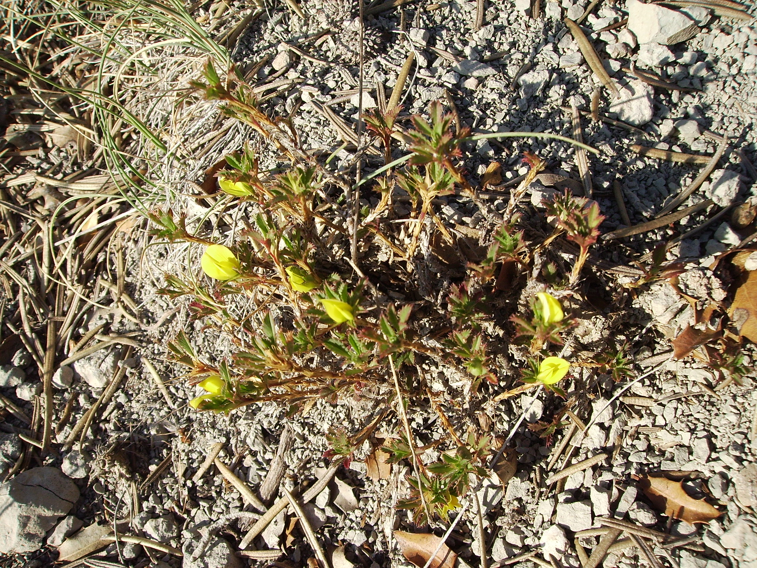 Image:Ononis_minutissima(gavó).jpg Ononis minutissima (gavó)in july 2006 at Castelltallat;Catalonia My owm work